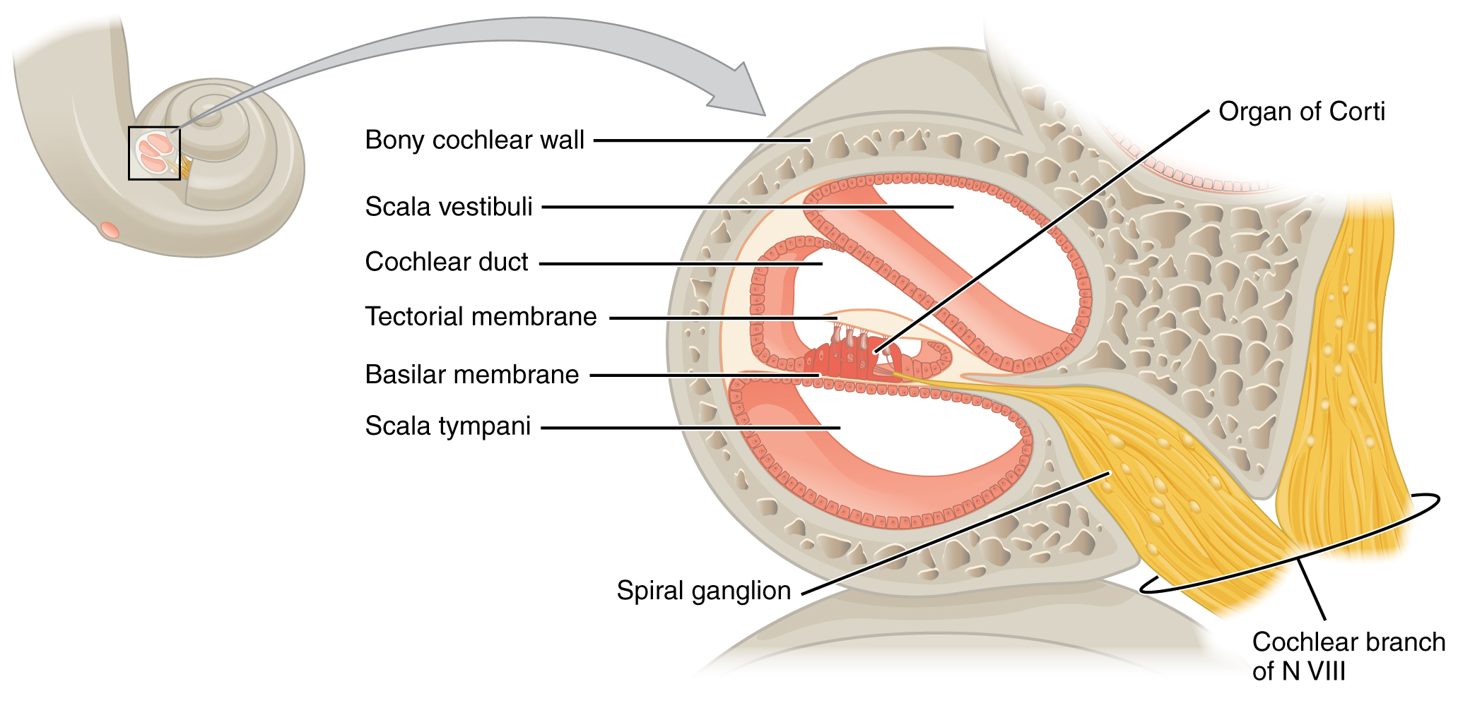 Version 8.25 from the Textbook OpenStax Anatomy and Physiology Published May 18, 2016